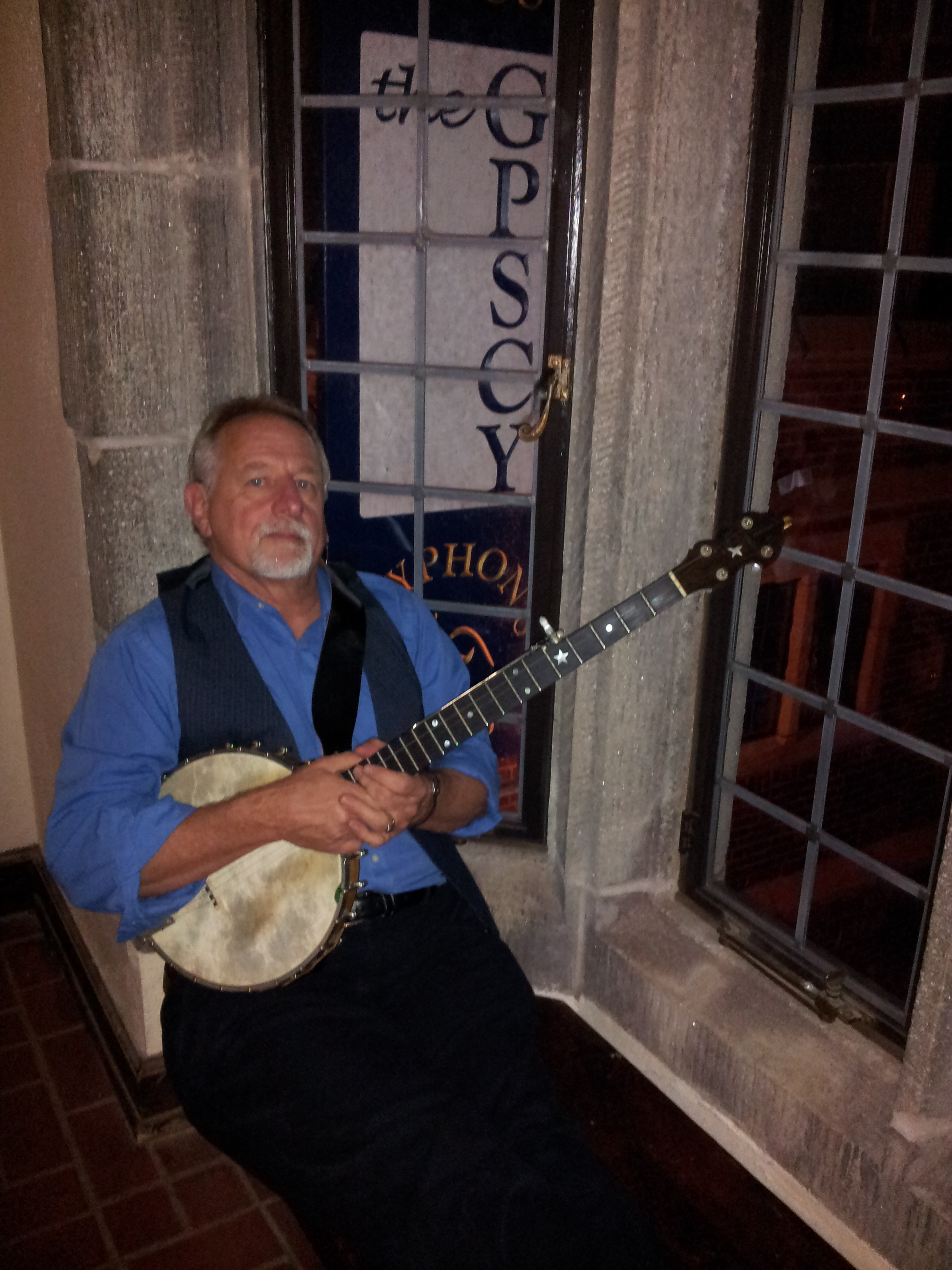 Rick at GPSCY waiting for The Jovial Crew gig to begin.